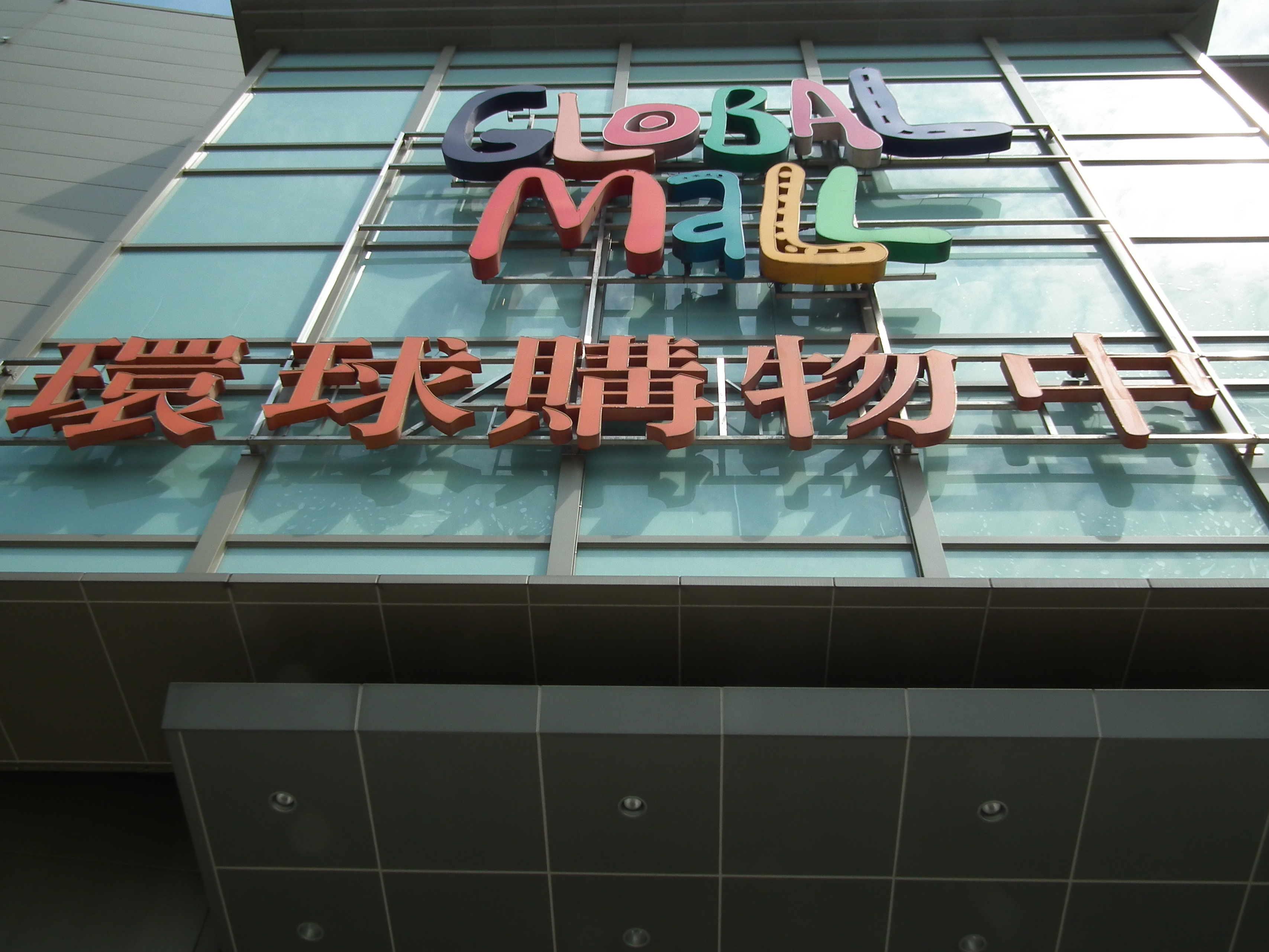 Zhonghe Global Mall 中和環球購物中心